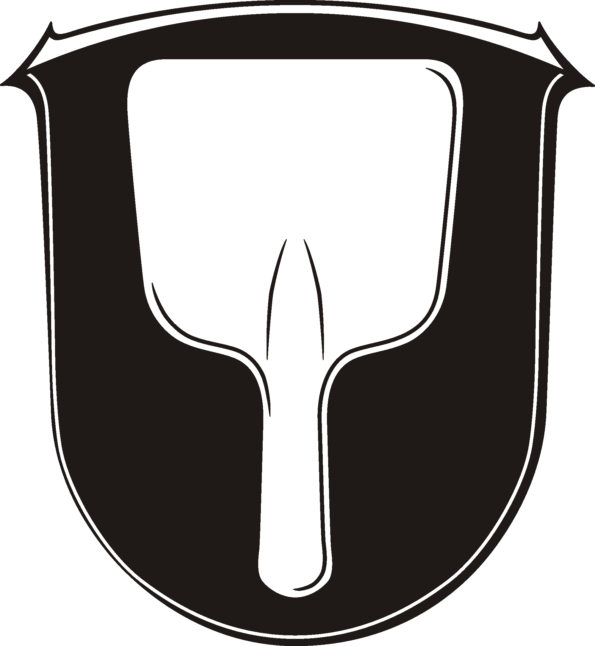 Coat of Arms of Nauheim